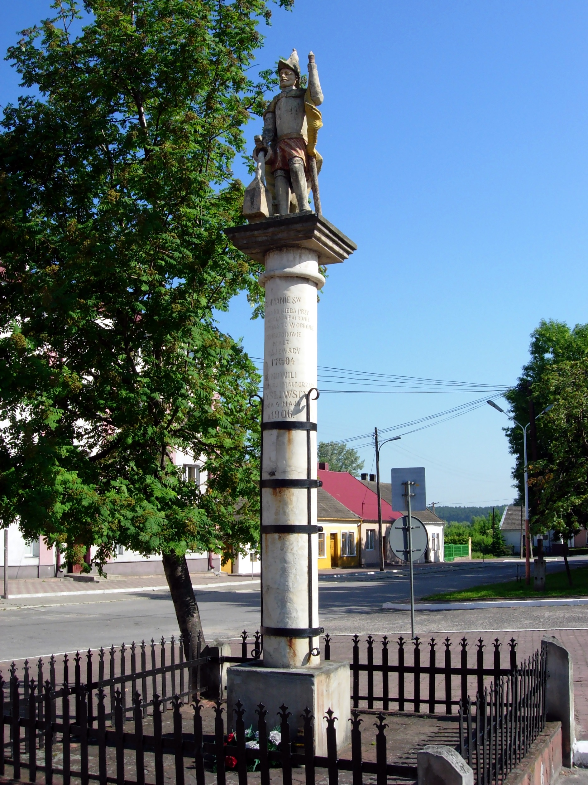 Statue of St. Florian on Market Square in Ćmielów, Poland